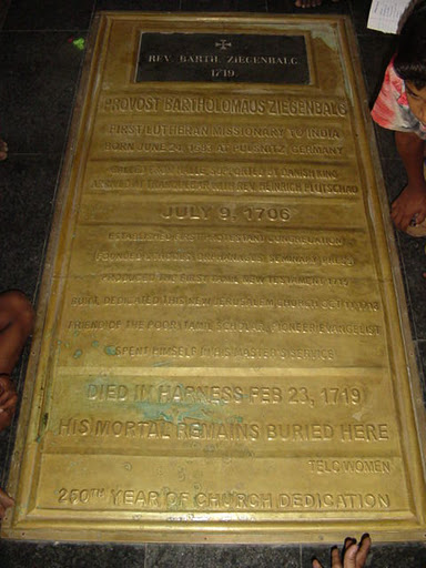 Gravestone of Bartholomäus Ziegenbalg in Tranquebar, Tamil Nadu, South India.